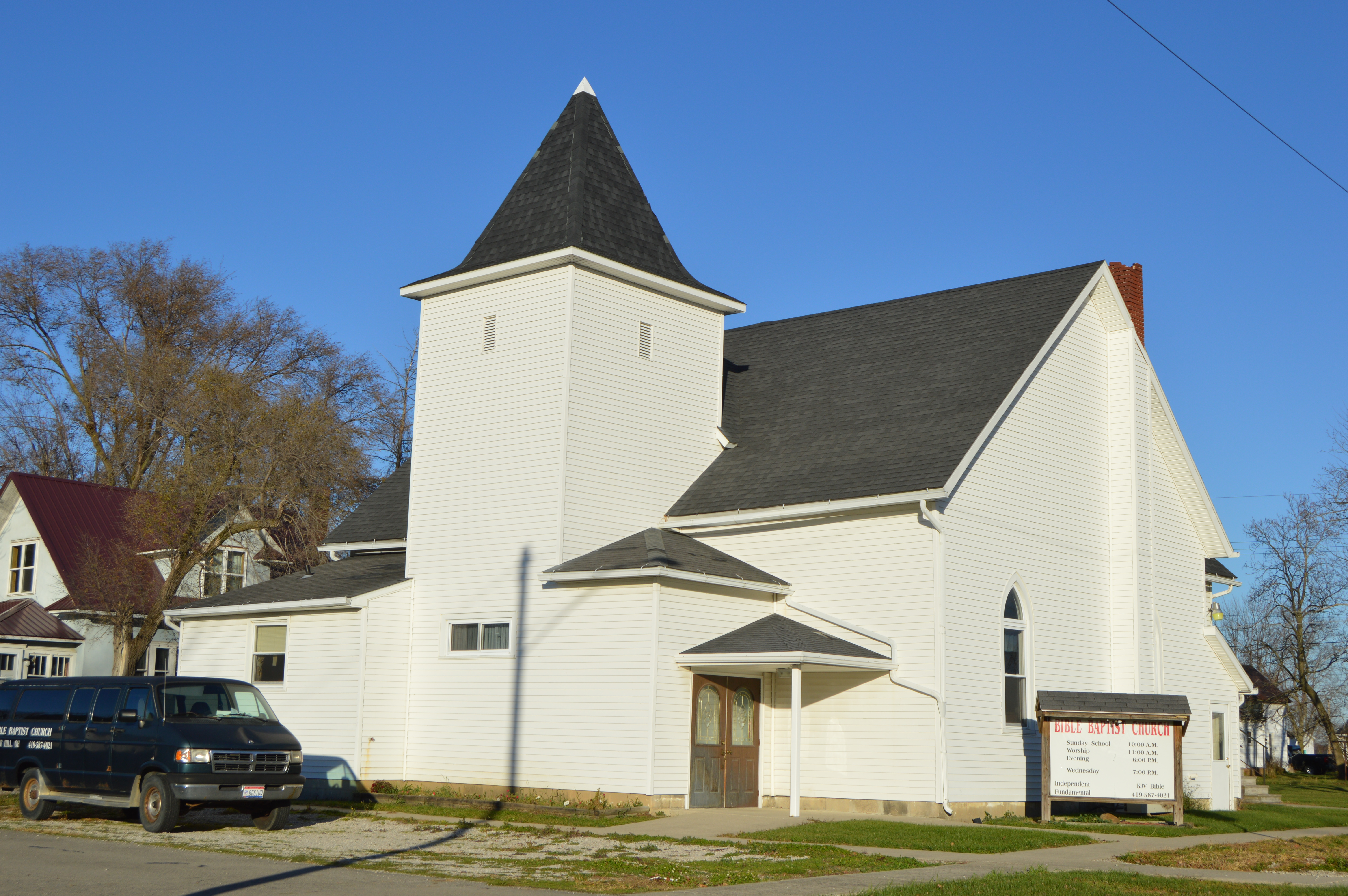 Front and southern side of the Grover Hill Bible Baptist Church, located on the northeastern corner of the intersection of Perry and Cleveland Streets in Grover Hill, Ohio, United States.